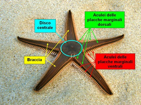 Description of Astropecten (Astropecten bispinosus)